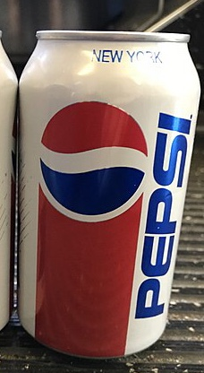 Pepsi logo can from the 90’s